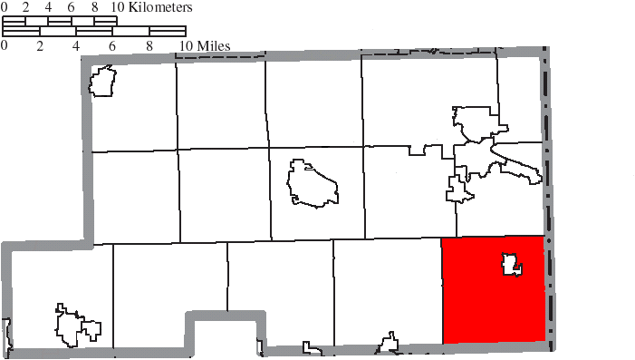 Map of the municipal and township boundaries of Mahoning County, Ohio, United States, as of the 2000 census, with the location of Springfield Township highlighted. Township borders are shown only in unincorporated areas in order to differentiate incorporated and unincorporated areas more clearly.